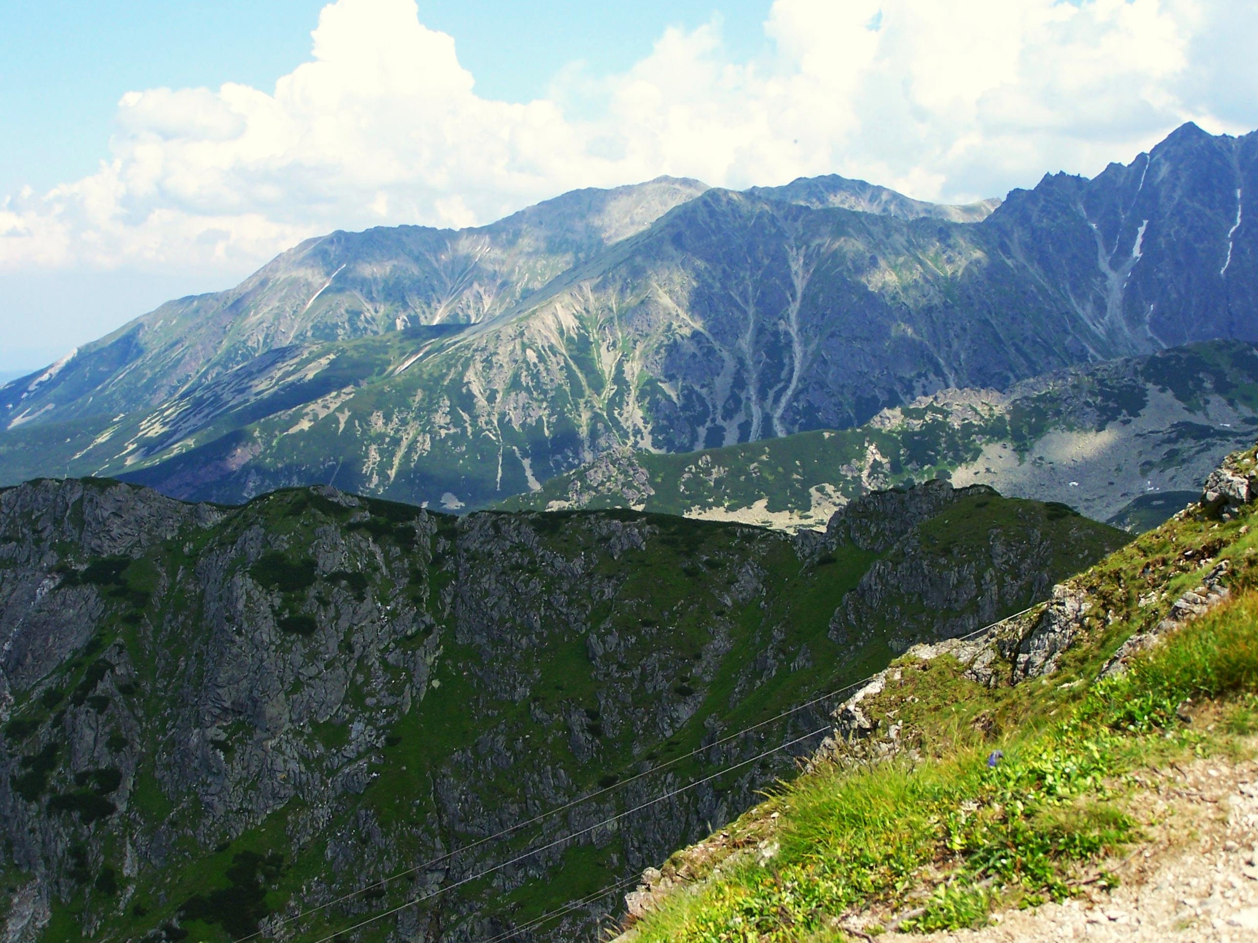 Żółta Turnia (Tatra Mountains). View from Kasprowy Wierch